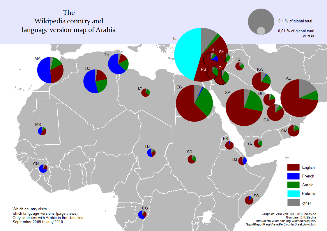 The Wikipedia countries and language version map of Northern Africa and the Middle East. There is also a PDF version.